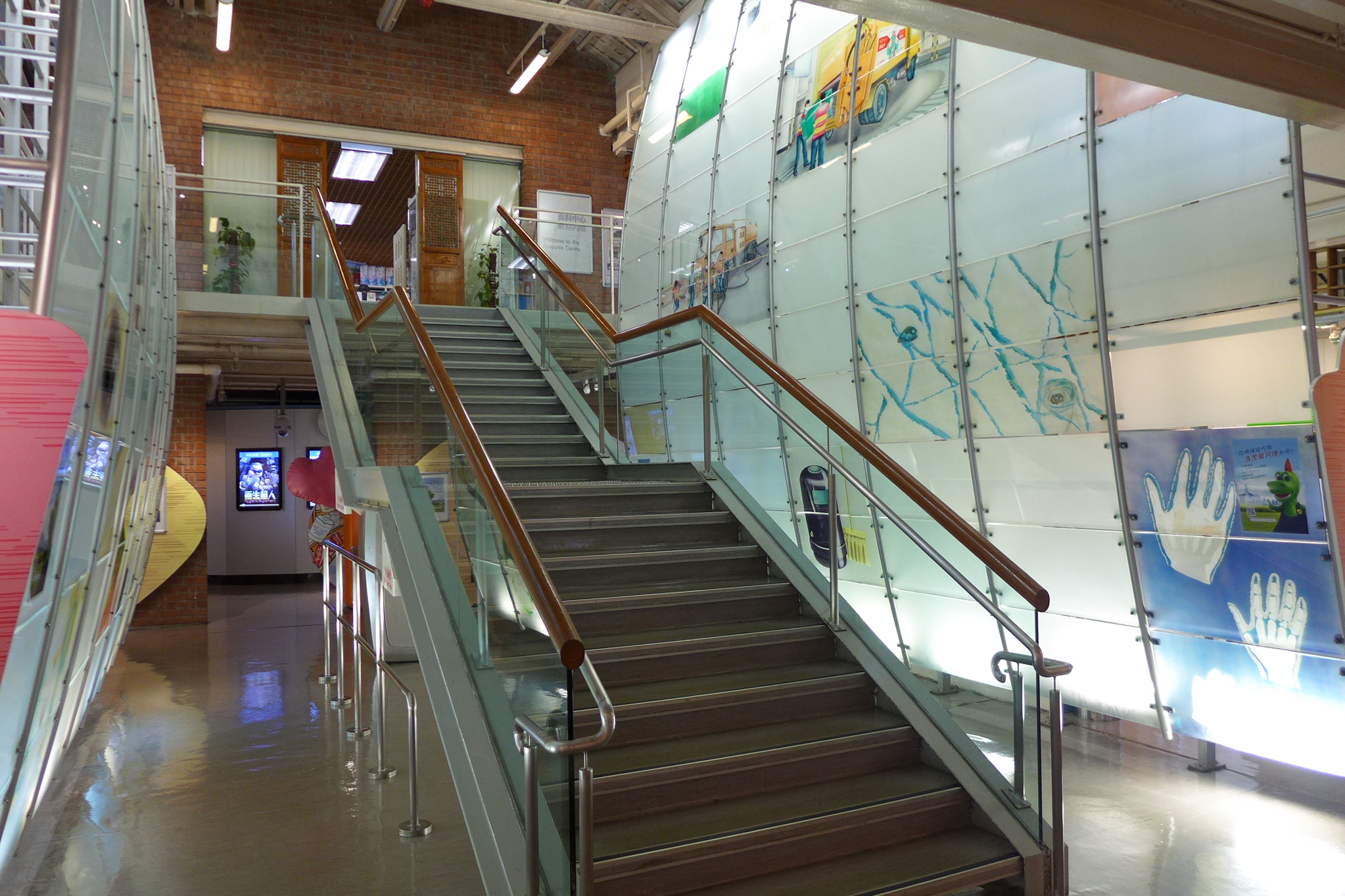 Health Education Exhibition & Resource Centre